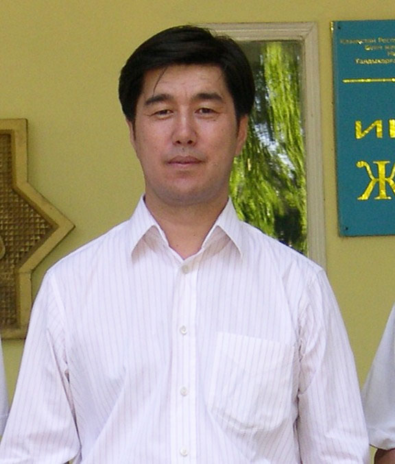 Baymenov Alikhan Mukhamedyevich